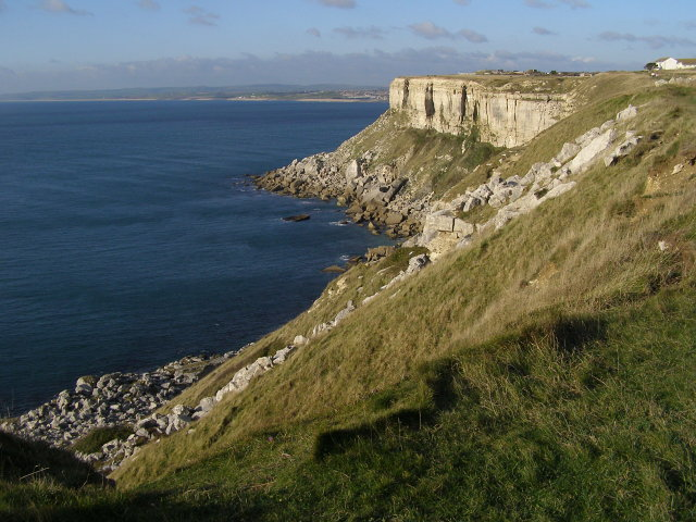 Blacknor from Weston Quarries Weare In the foreground there is a very steep path down the cliff (the old 'weare' or quarry tip). There are few places on this part of the coast with walking access to the shore from the clifftop: to the north and south there are vertical cliffs of Portland limestone.